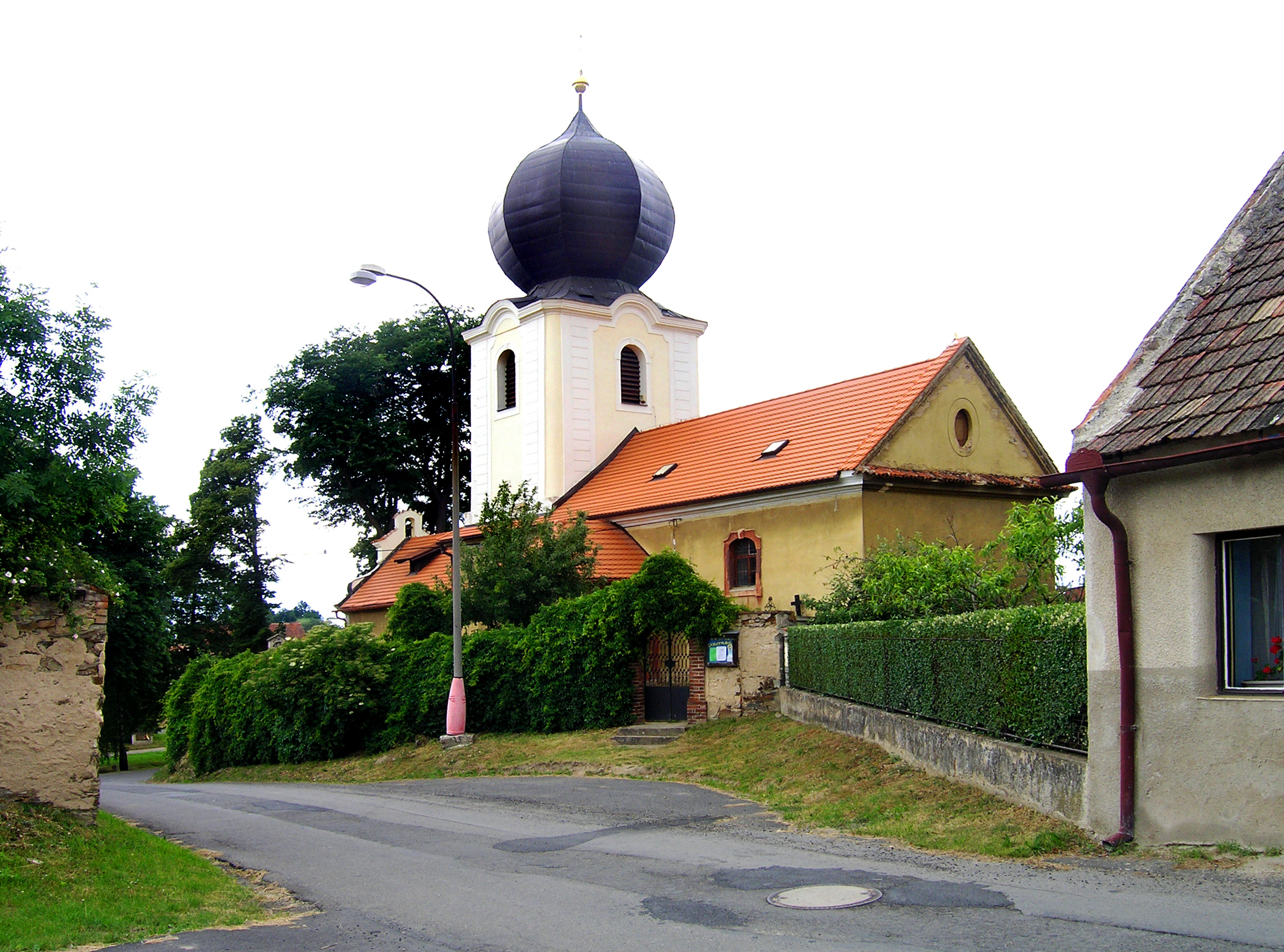 Svatý Bartoloměj church in Popovičky, Czech Republic